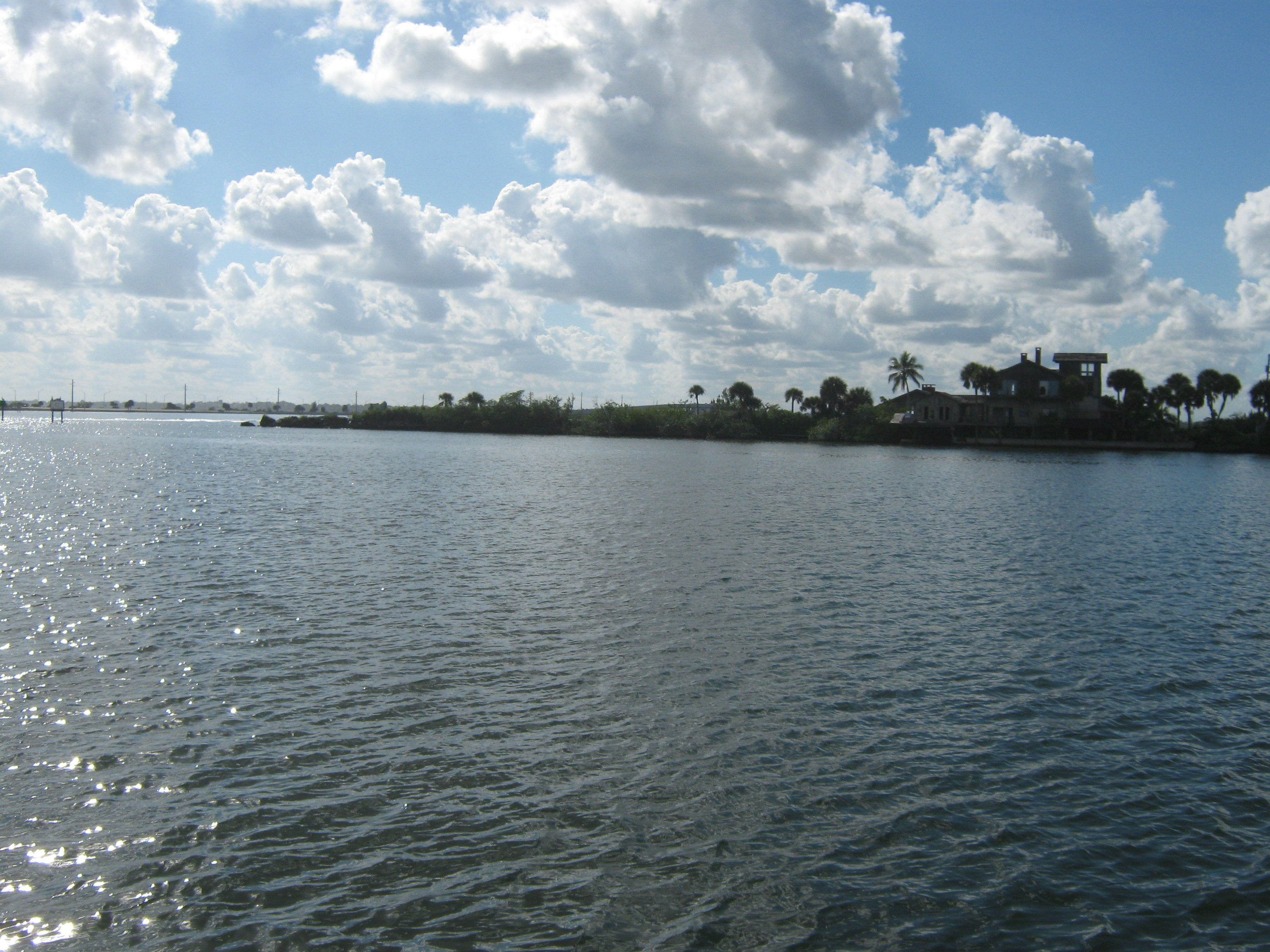 Southern most tip of Merritt Island, Florida from the Banana River side. This photograph was taken from the docks of Eau Gallie Yacht Club, 100 Datura Drive, Indian Harbour Beach, Florida. The southern tip of Merritt Island on Dragon Point Drive was the location of the Merritt Island Dragon, a landmark of the area. The dragon has been destroyed.